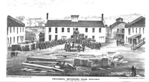 Prisoners returning from worship. Taken from Engine House.